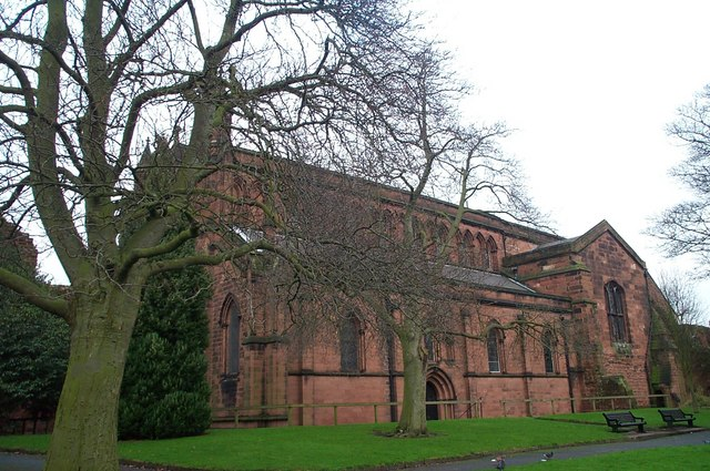 Church of St John the Baptist The church of St John the Baptist was the first cathedral built in Chester, but it lost its status when the see was moved to Coventry after only 20 years.